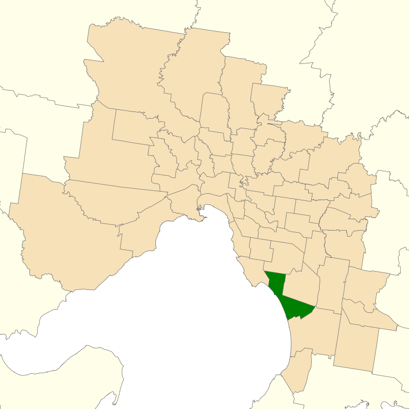 Location of the Victorian electoral district of Mordialloc (dark green) in the Greater Melbourne area.